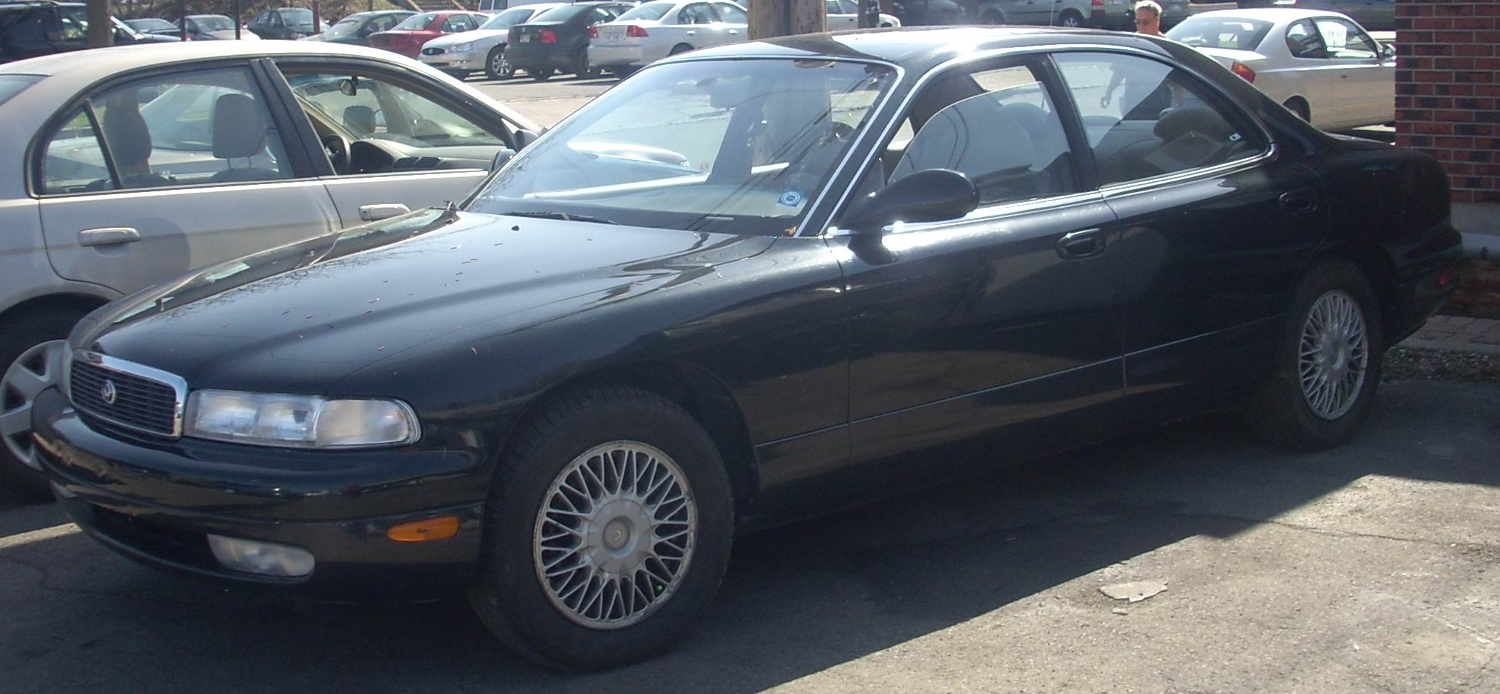 1992 Mazda 929 Serenia photographed in Montreal, Quebec, Canada.